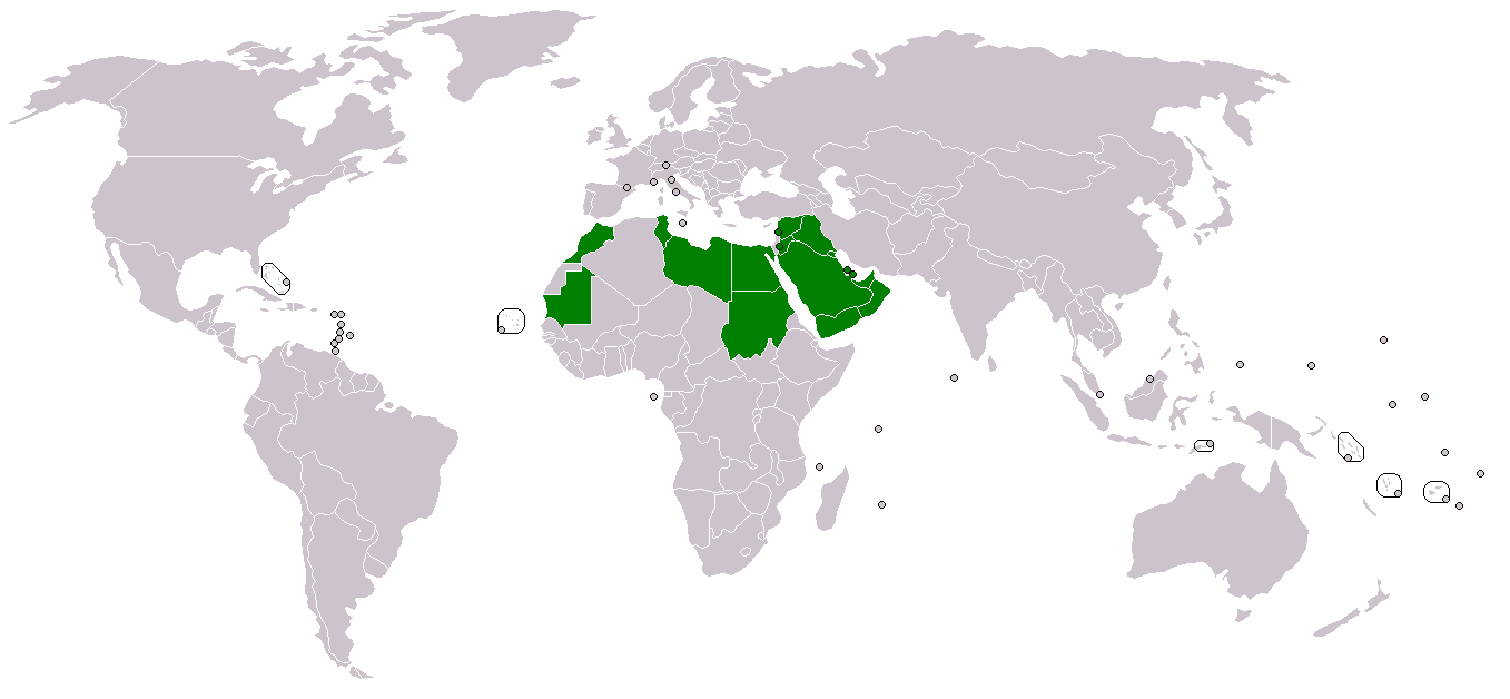 A geographical map of Arab states members of UN-ESCWA